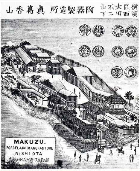 Picture of Makuzu Kozan Pottery Factory